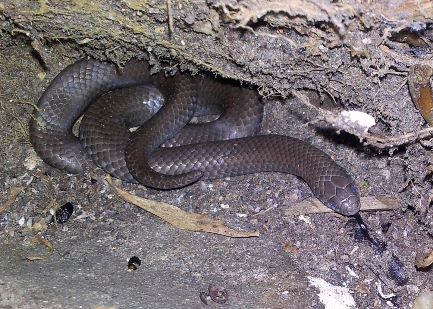 Duberria lutrix - slugeater snake - Kenilworth - Cape Town